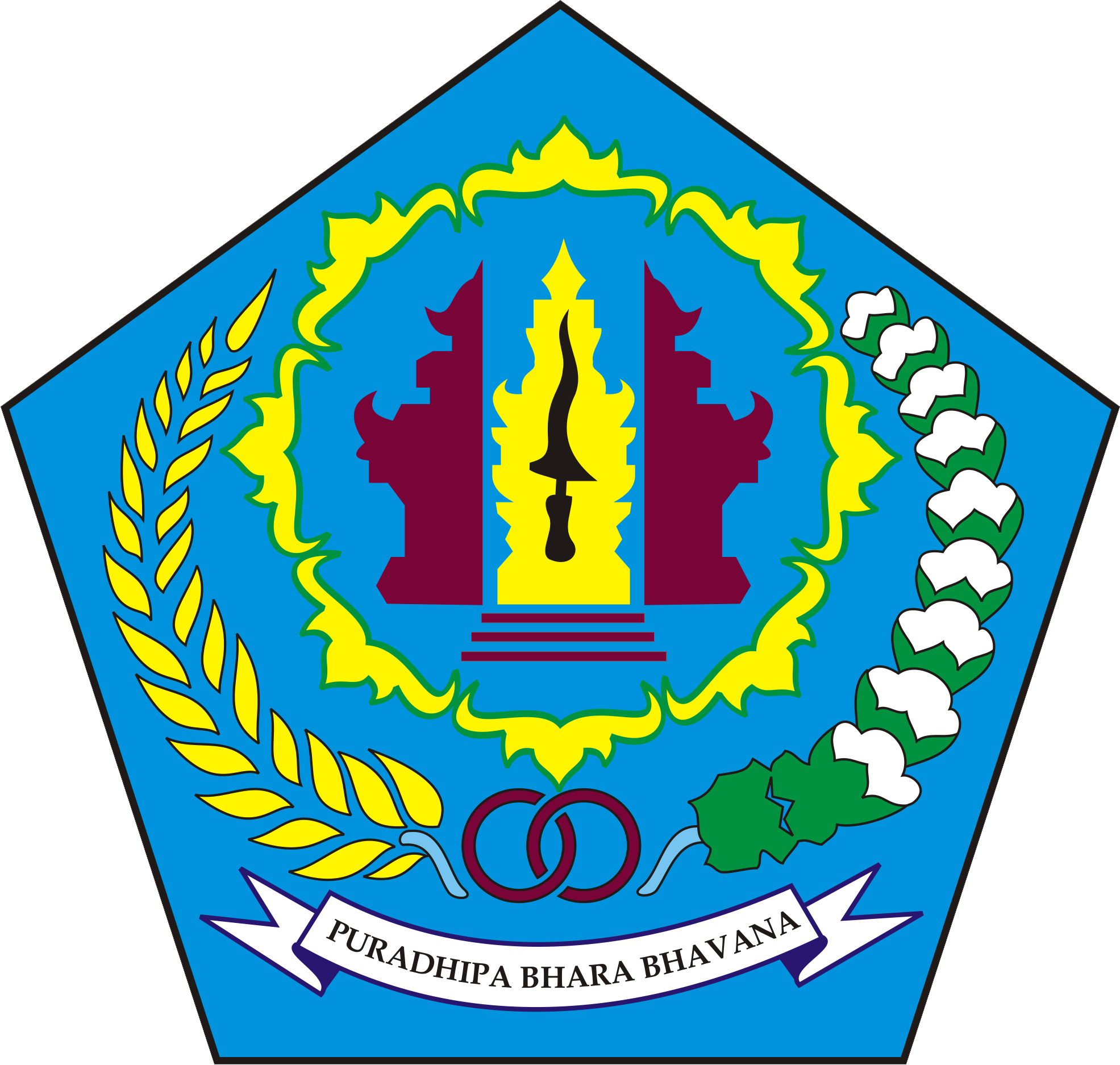 Seal of Denpasar